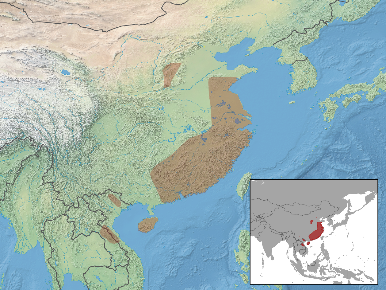 geographic distribution of Myotis pilosus